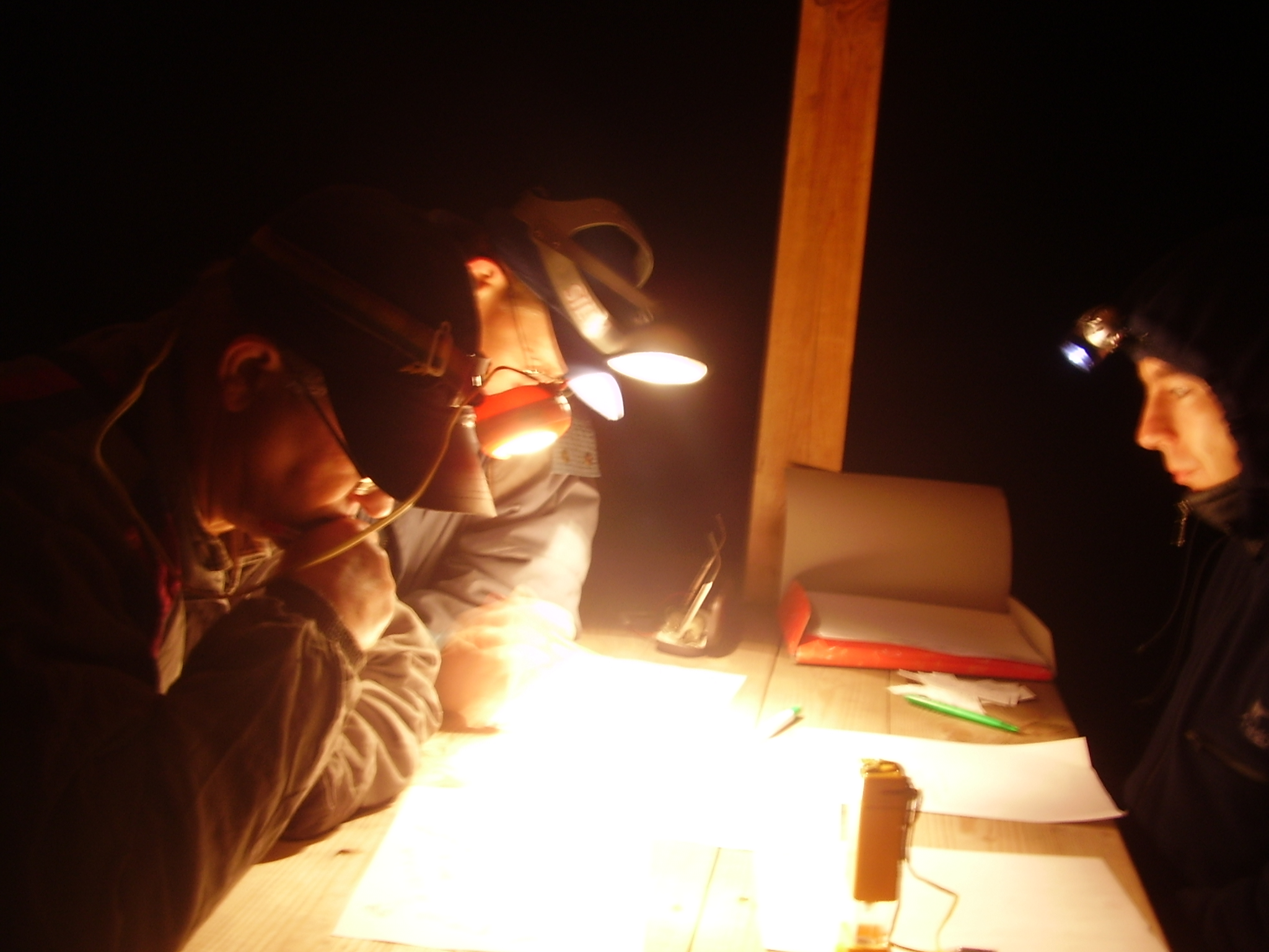 Start of the night stage of Marches Spring Academic Orienteering "WAMnO 2006"